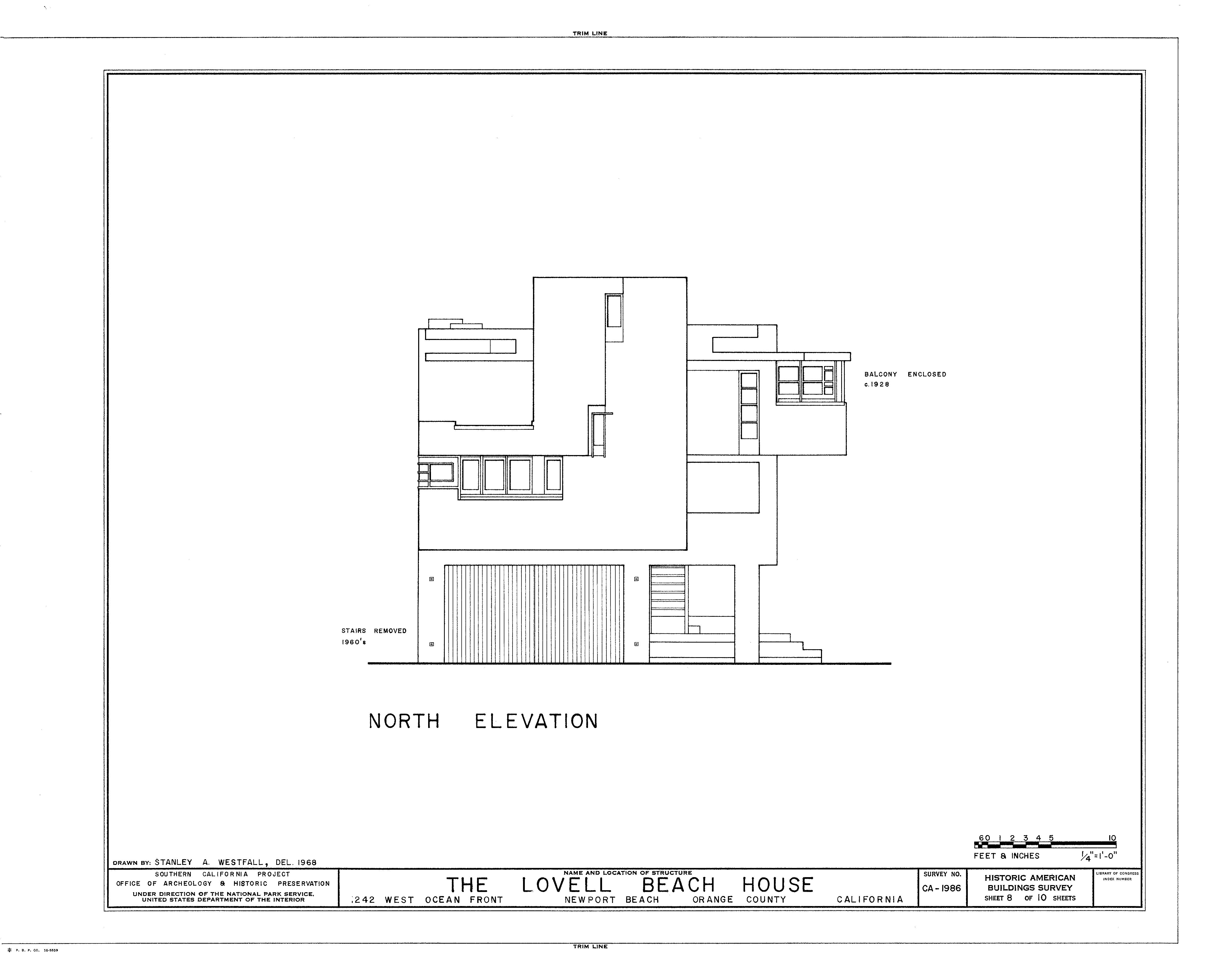 Lovell Beach House — North elevation, building survey drawing. Design by architect Rudolph Schindler. On the National Register of Historic Places in Southern California. Image courtesy of the federal HABS—Historic American Buildings Survey of California.